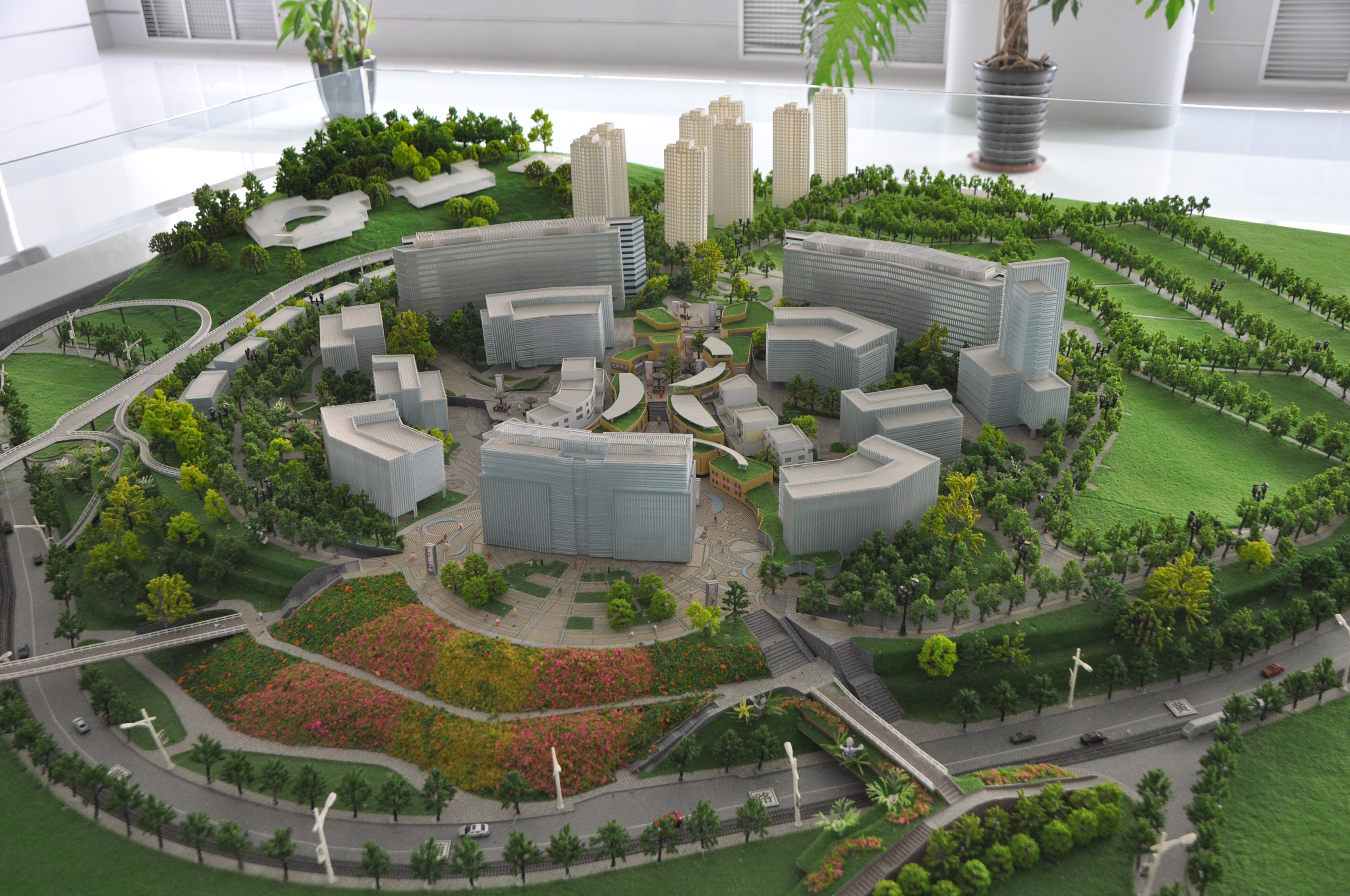 Dalian Ascendas It Park Model (2012)